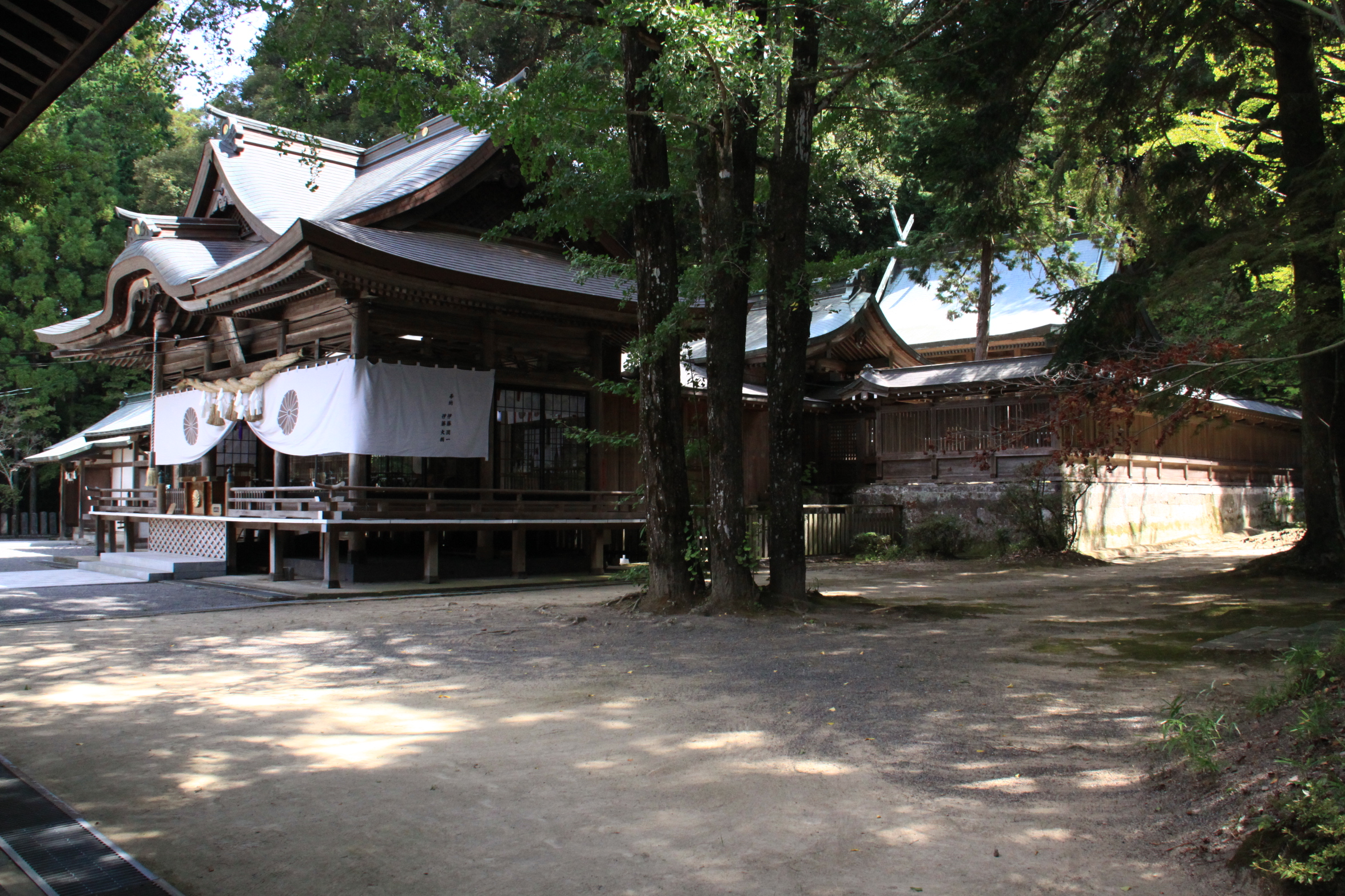 Sasamuta jinja Haiden and Honden.